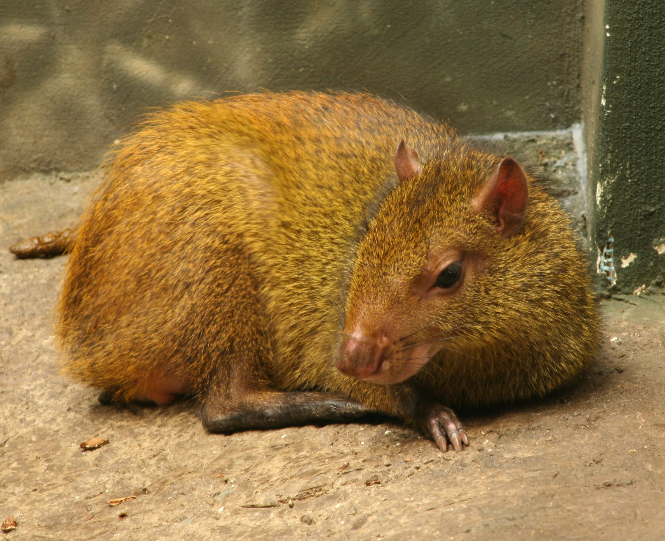 Brazilian Agouti (Dasyprocta leporina) at the Buffalo Zoo